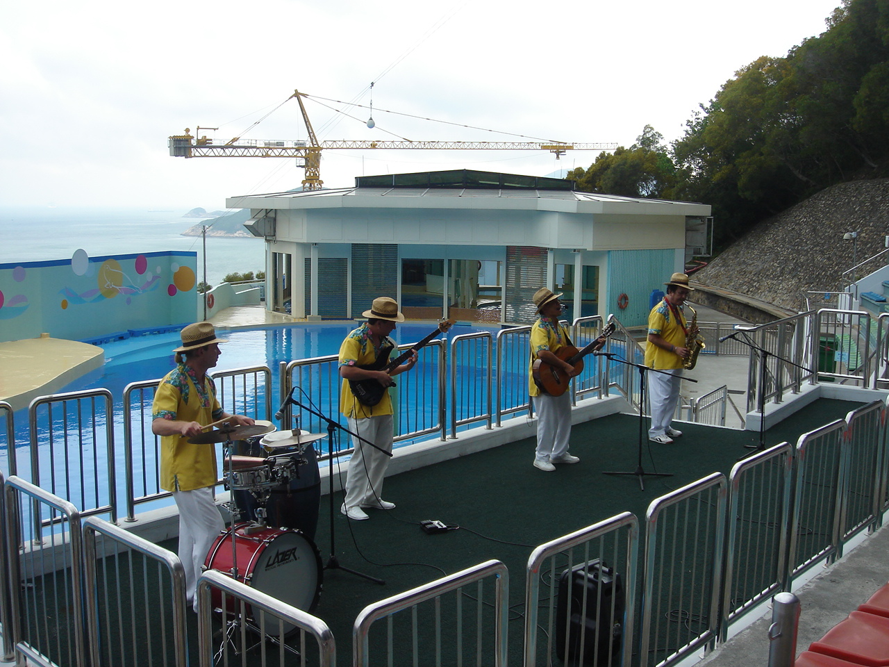 Musicians performing at the Ocean theater,Ocean Park Hong Kong